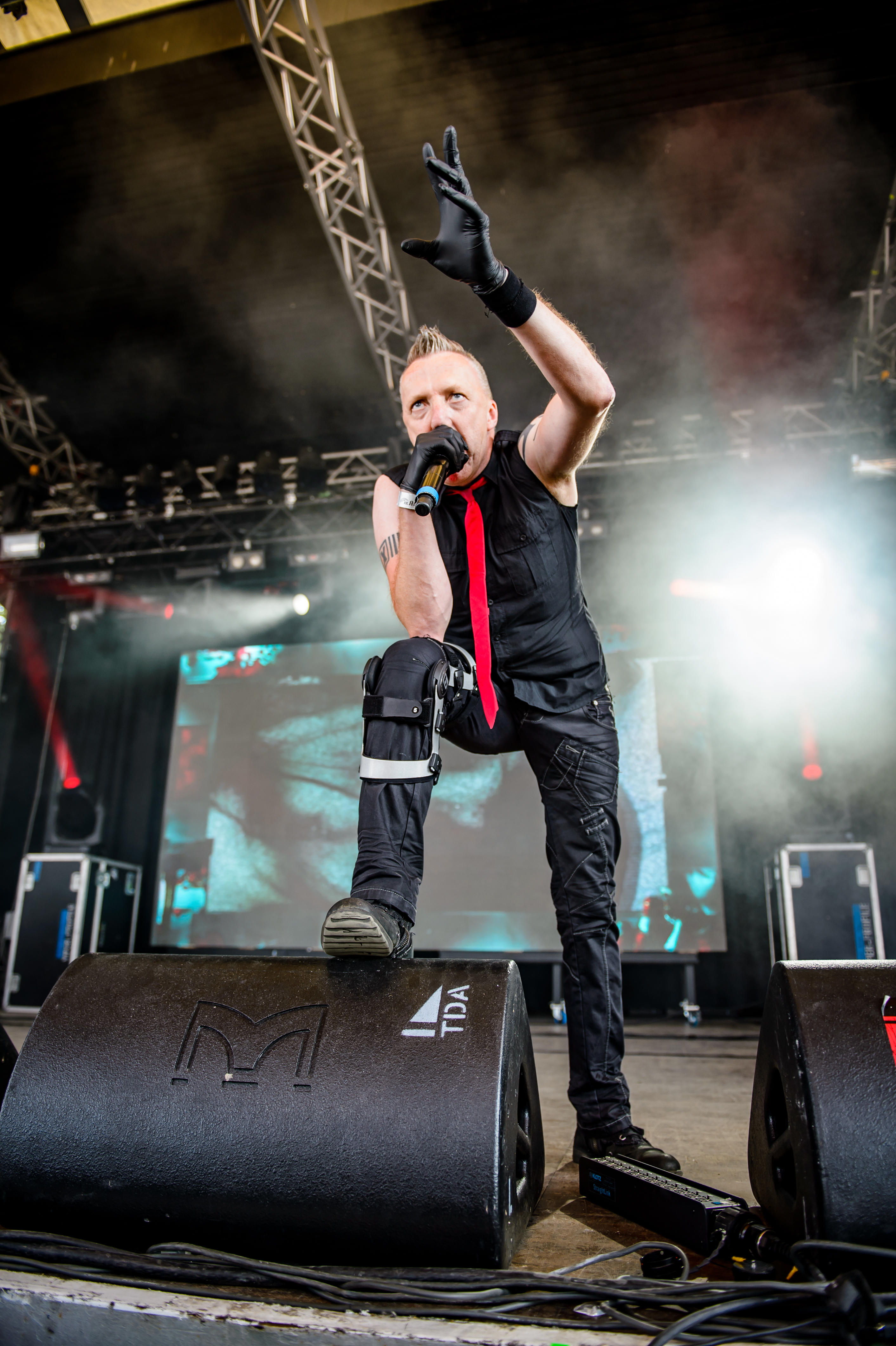 Suicide Commando; Amphi festival 2016